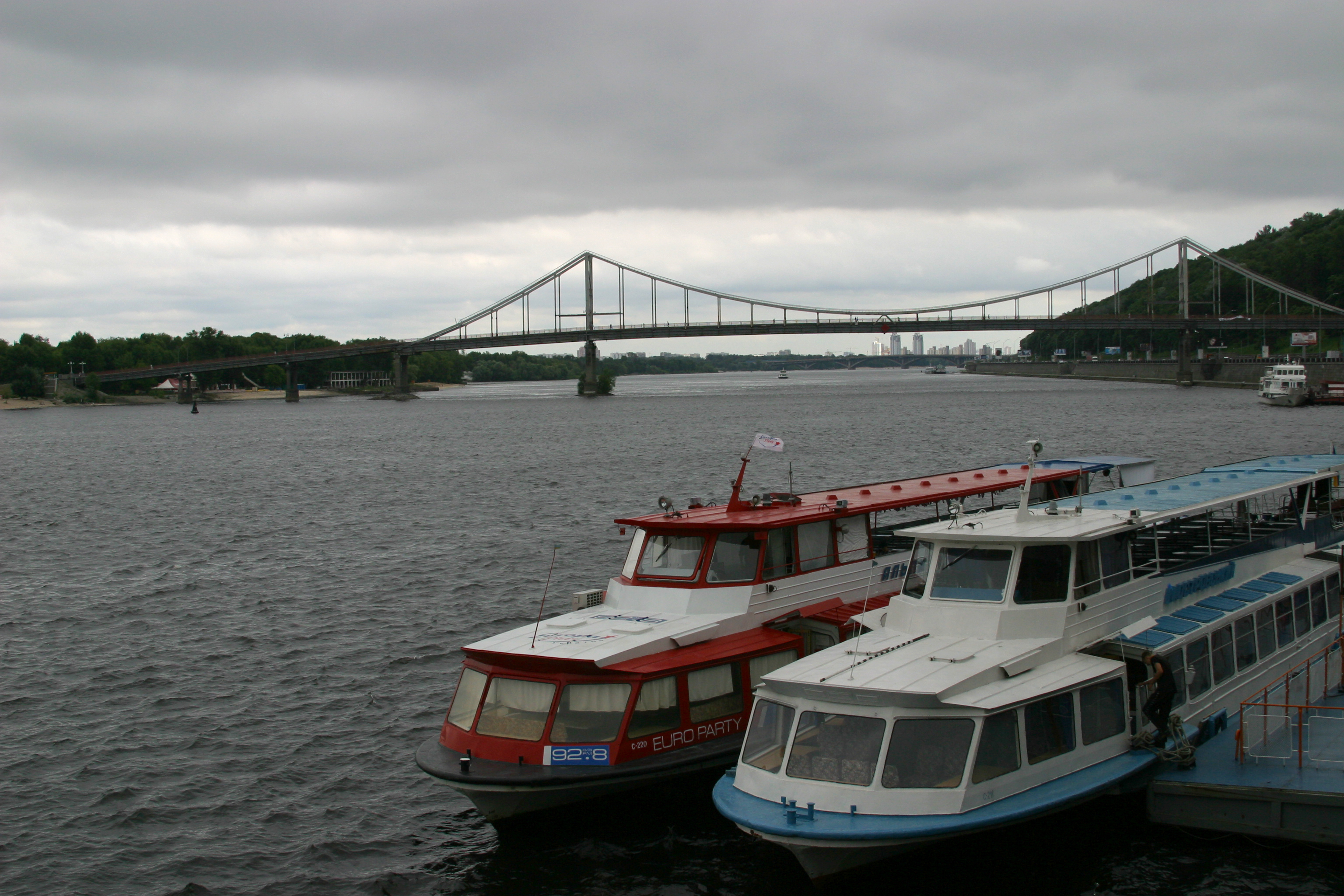 Two type Moskva ships in Kiev, Ukraine.